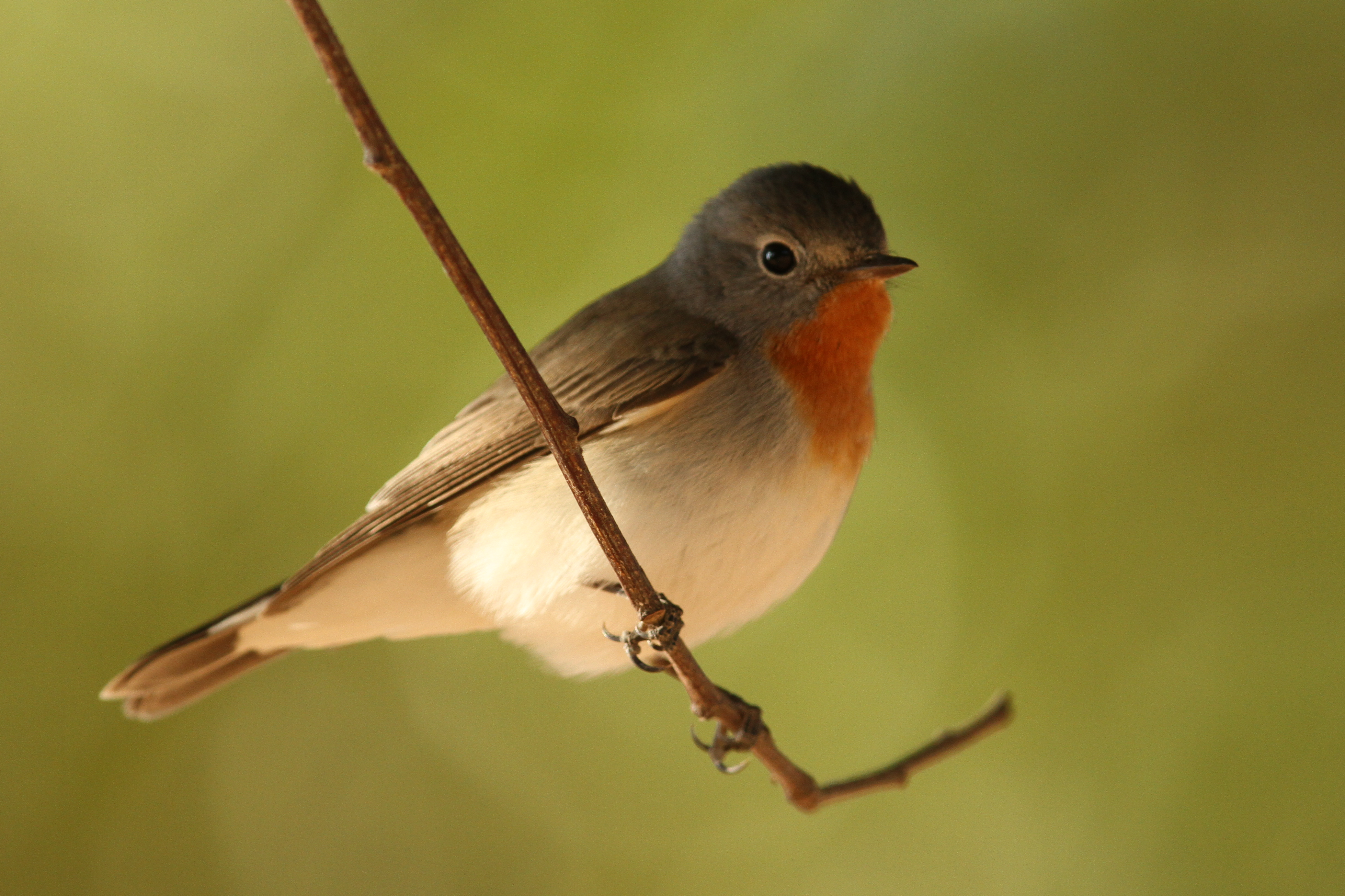 Birds of India